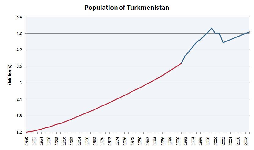 Turkmenistan's population (1950-2009). Data source: Demoscope